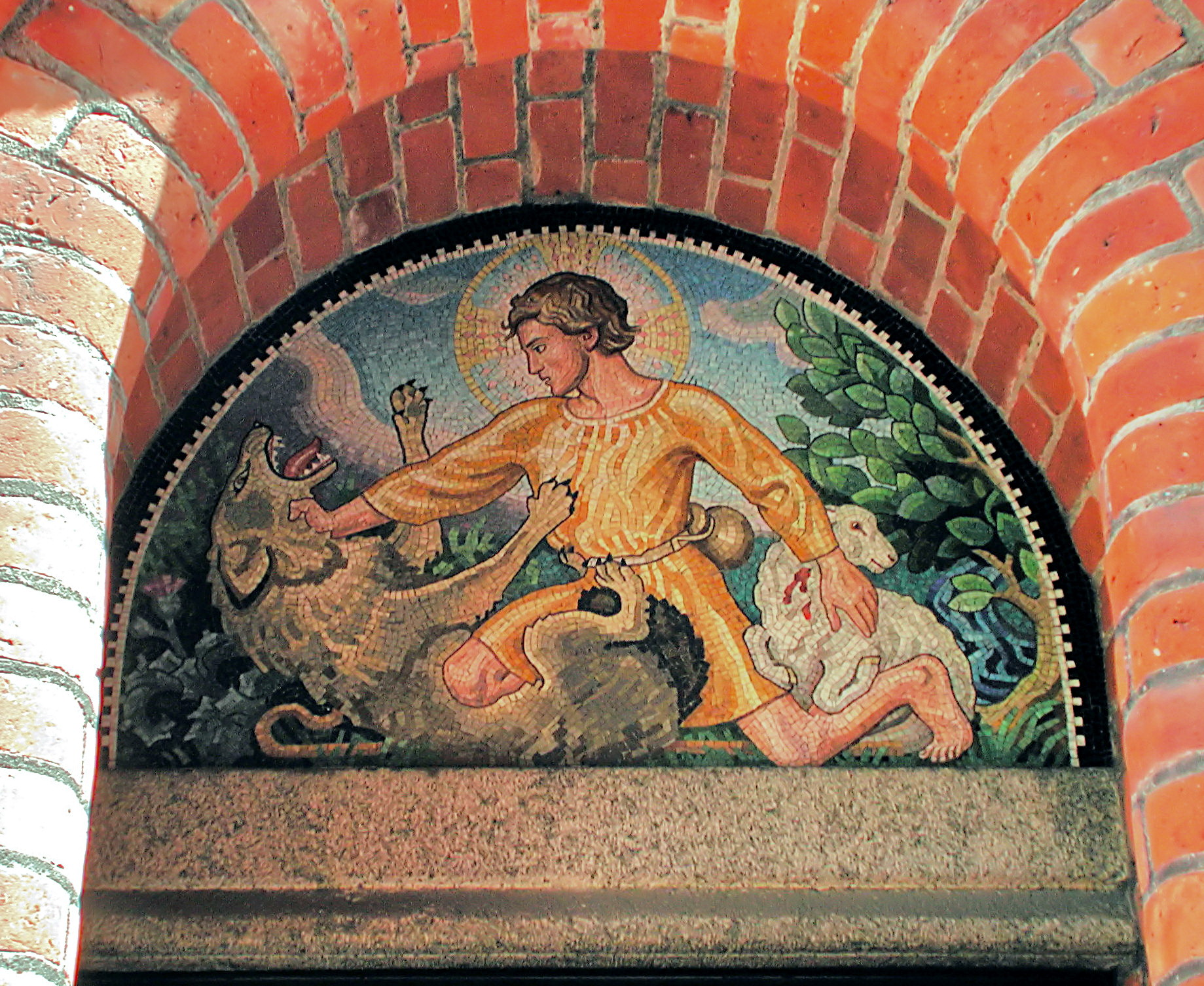 Immanuelskirken, Copenhagen, Denmark. Mosaic over door. First church in Denmark to use coloured mosaics.